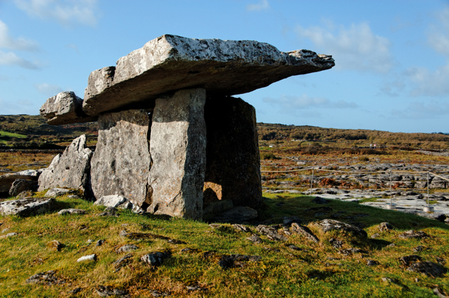 Poulnabrone Portal Tomb, The Burrens, Co. Clare, Ireland